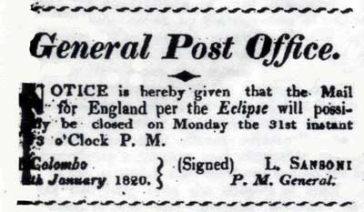 An early postal notice placed by the Post Master General Lewis Sansoni advising the closing time for outbound mail. From the Ceylon Government Gazette of 31st January, 1820.